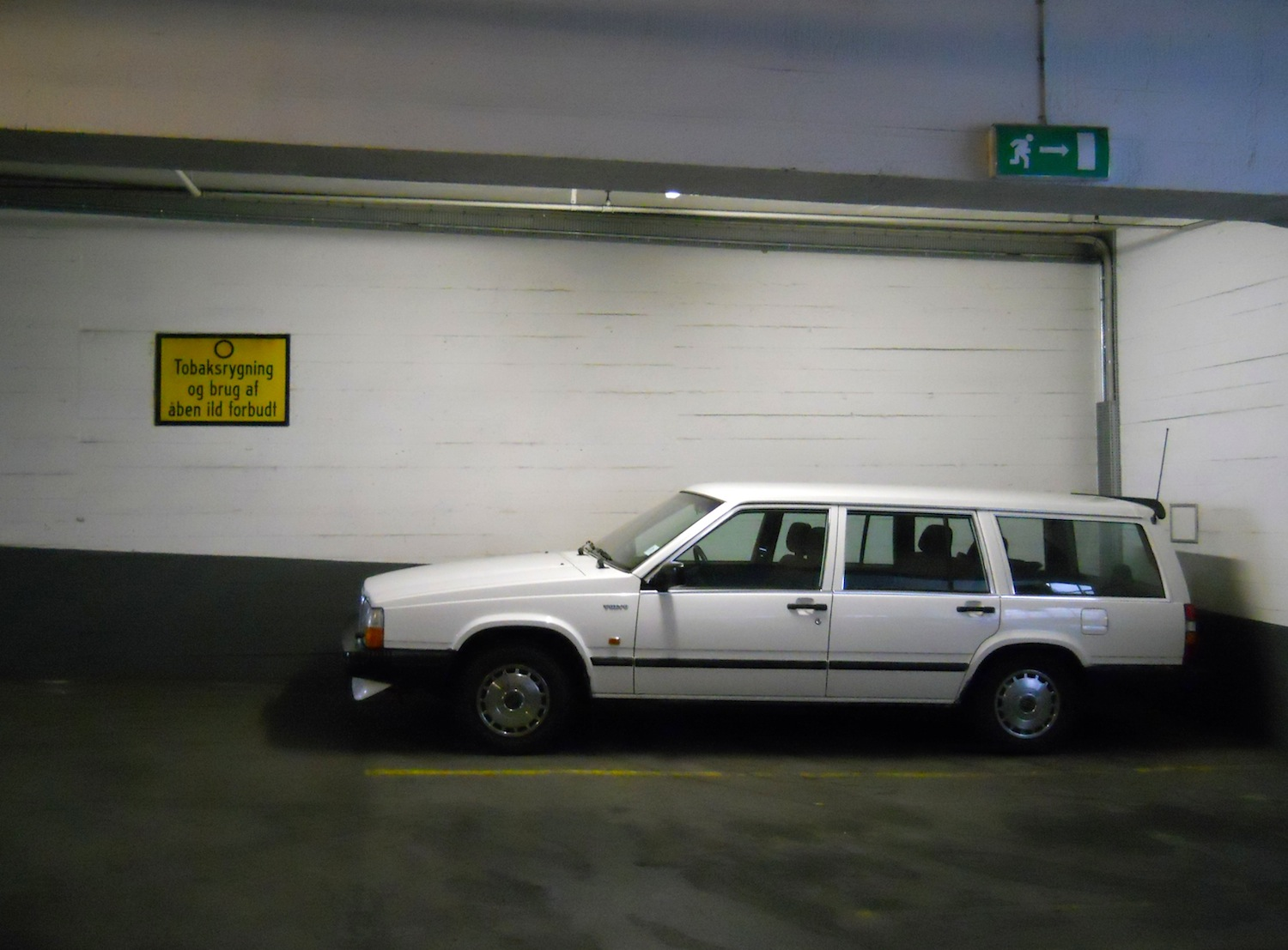 Volvo 740 estate (model 1987).